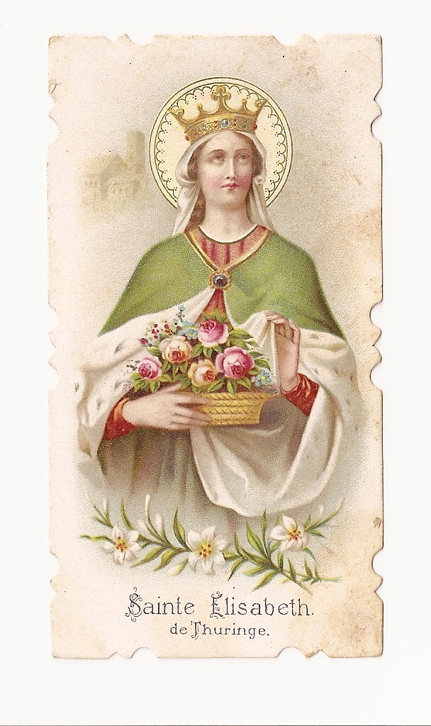 Image shows St Elisabeth of Hungary/Thuringia with golden crown, holding a basket of (damask?) roses which is partially covered still by her mantle. Card reads "Ste Elisabeth de Thuringe."